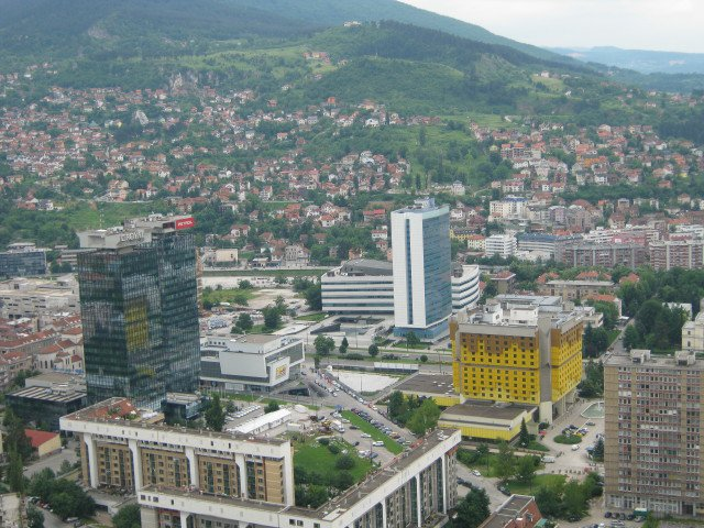 MArijin Dvor neighbourhood, Sarajevo